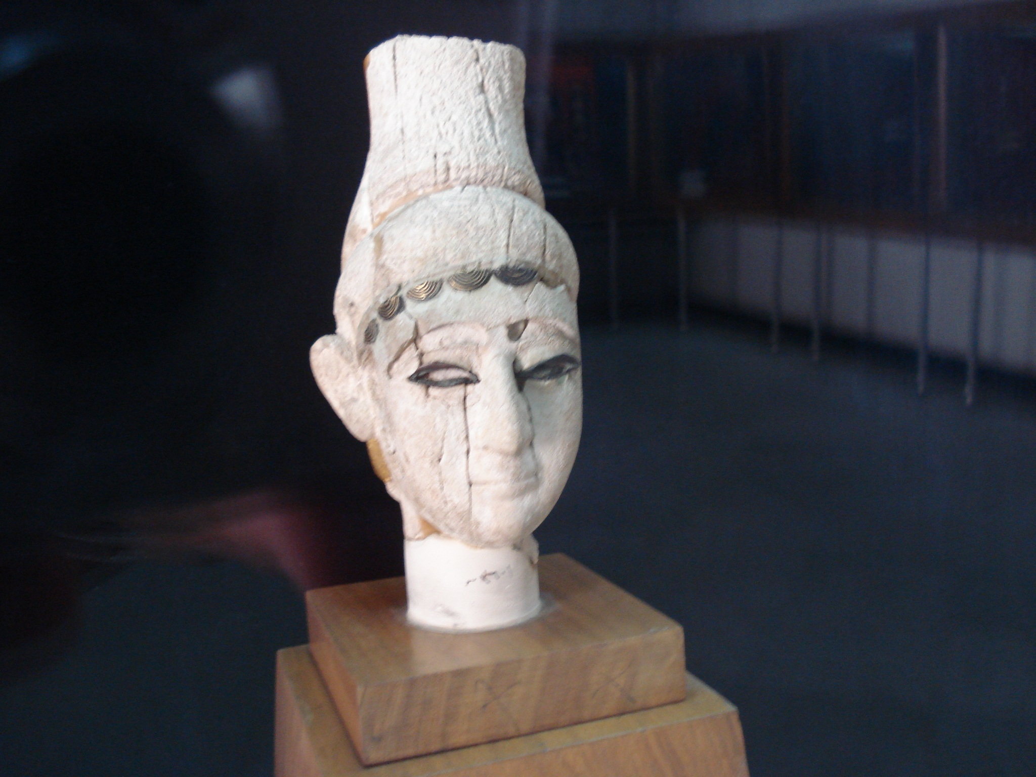 Head of Ugaritan prince found in Ugarit,Syria